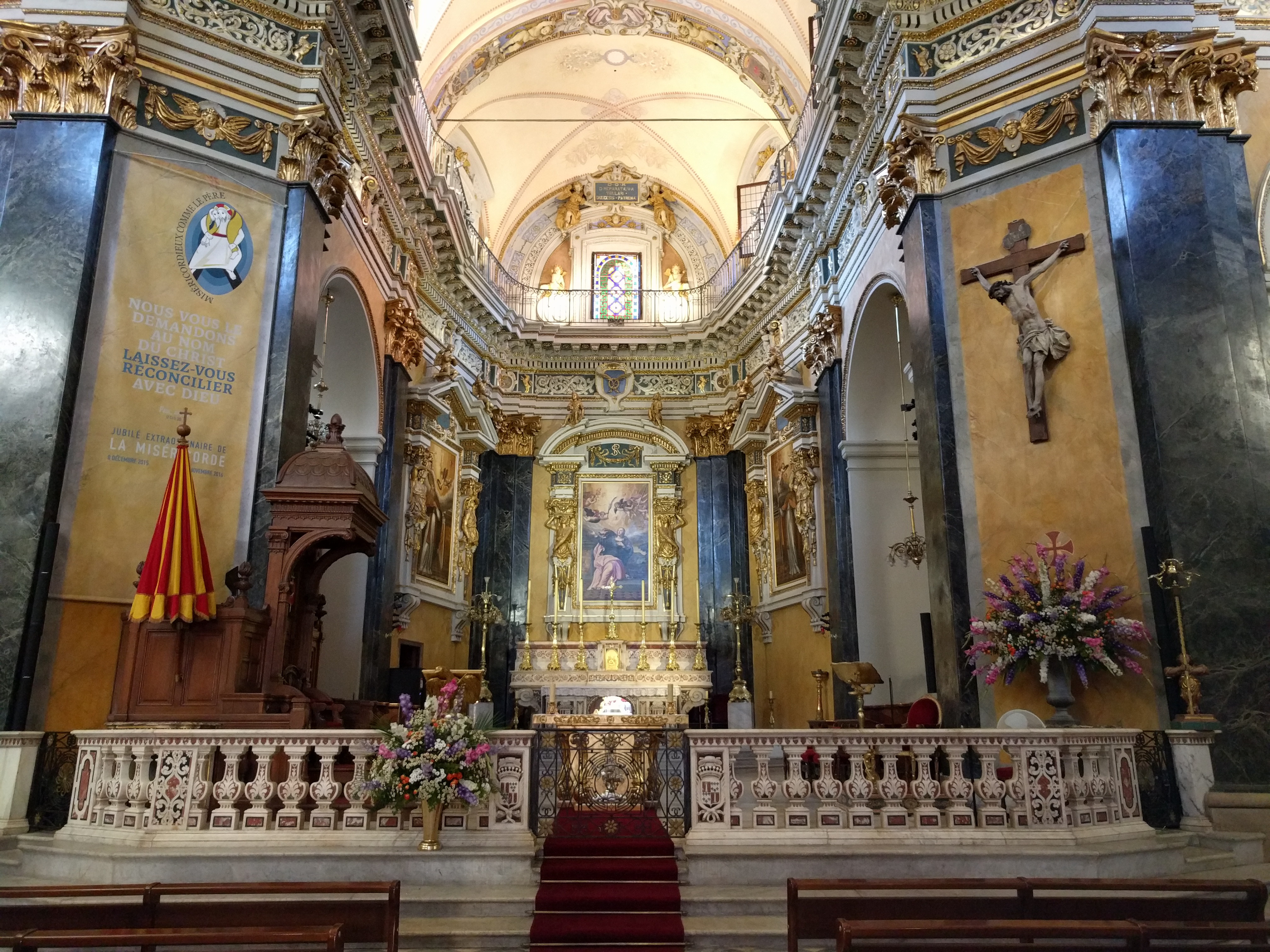 Interior of Cathédrale Sainte-Réparate de Nice.